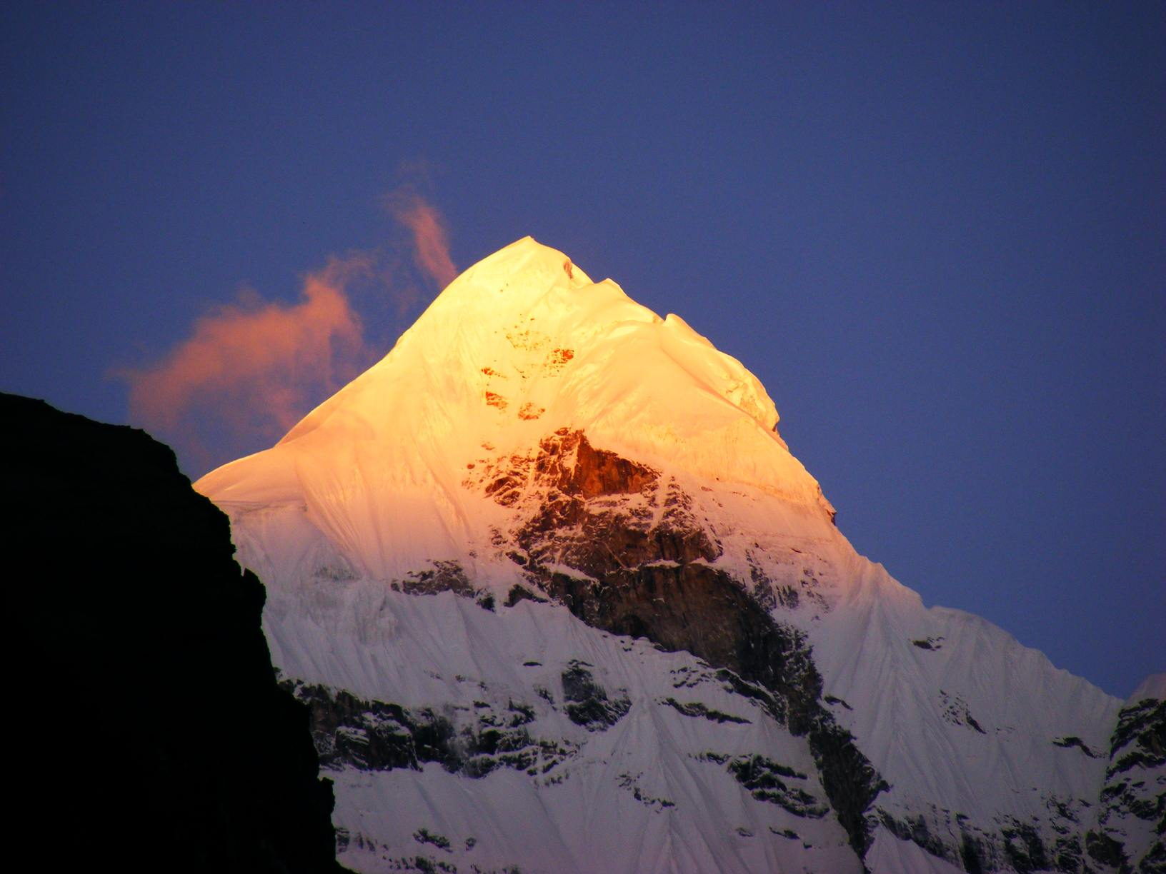 Neelkanth ,early morning 5:55 a.m.First Rays of sunlight